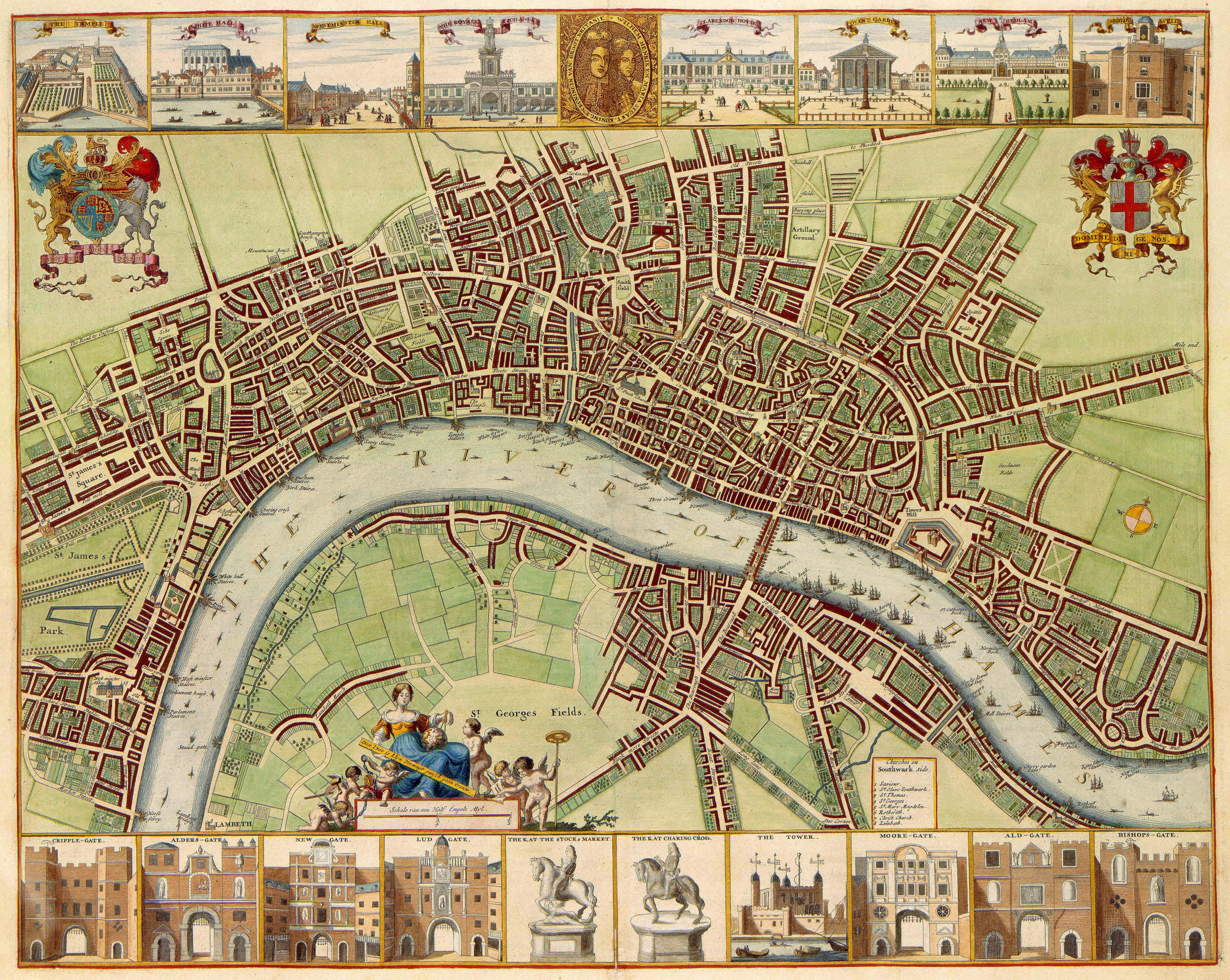 17th century map of London, originally started by W.Hollar, student of German engraver Mattheus Merian. Published in the Netherlands. It is not clear where this town plan of London was published. Judging by the double portrait at the top, the map was published after Parliament installed joint monarchs William III and Mary Stuart in 1689. The map was composed by the famous designer and engraver from Prague Wenceslaus Hollar (1607-1677). He adopted, and excelled in, a style best suited to chorography or delineation of cities. He received instructions from Mattheus Merian (1593-1650) in Frankfurt and was active in several European towns. From 1652 until his death Hollar lived and worked in London